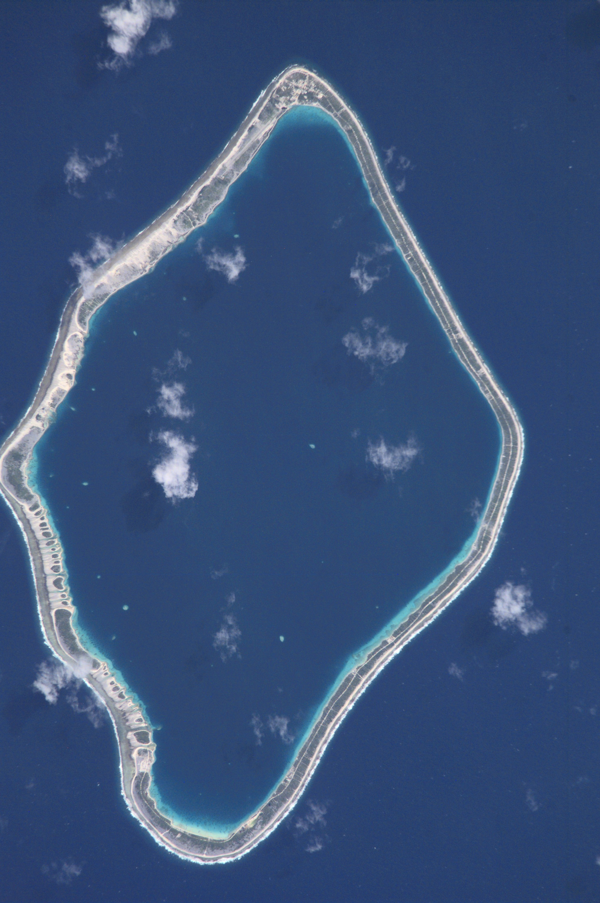 NASA Astronaut Image of Tureia Atoll(Tuamotu Archipelago, French Polynesia) in the Pacific Ocean